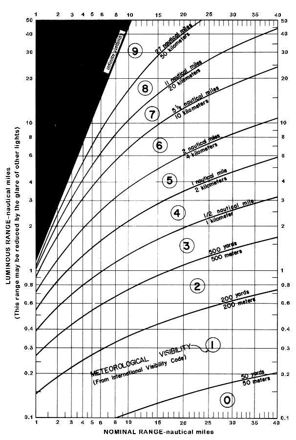 figure 407a of APN2002